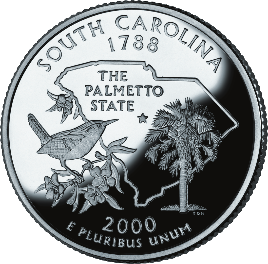 Removed background, cropped, and converted to PNG with Macromedia Fireworks. This image depicts a unit of currency issued by the United States of America. If Fraudulent use of this image is punishable under applicable counterfeiting laws. As listed by the United States Secret Service at money illustrations, the Counterfeit Detection Act of 1992, Public Law 102-550, in Section 411 of Title 31 of the Code of Federal Regulations (31 CFR 411), permits color illustrations of U.S. currency provided:1. The illustration is of a size less than three-fourths or more than one and one-half, in linear dimension, of each part of the item illustrated;2. The illustration is one-sided; and3. All negatives, plates, positives, digitized storage medium, graphic files, magnetic medium, optical storage devices, and any other thing used in the making of the illustration that contain an image of the illustration or any part thereof are destroyed and/or deleted or erased after their final use. Certain coins contain copyrights licensed to the U.S. Mint and owned by third parties or assigned to and owned by the U.S. Mint [1]. For the United States Mint circulating coin design use policy, see [2]; for the policy on the 50 State Quarters, see [3]. Also: COM:ART #Photograph of an old coin found on the Internet